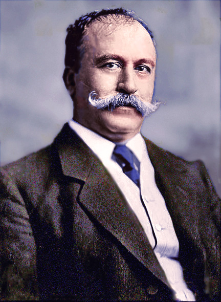 Pedro Nel Ospina, President of the Republic of Colombia. 1922-1926.